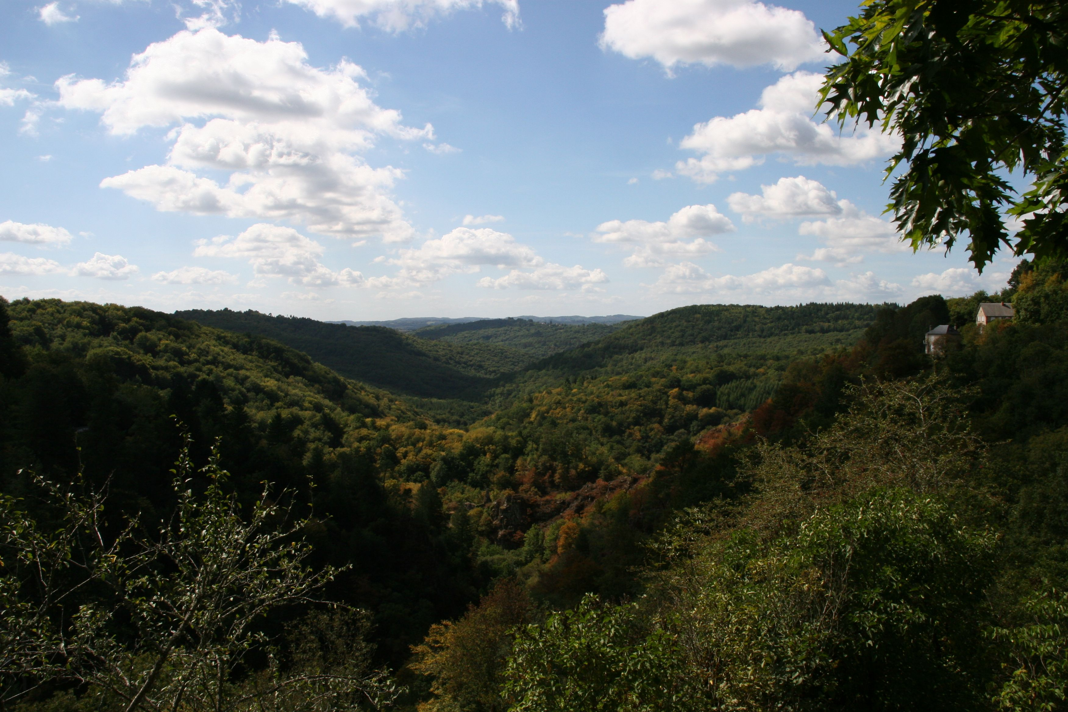 Gimel: Forest